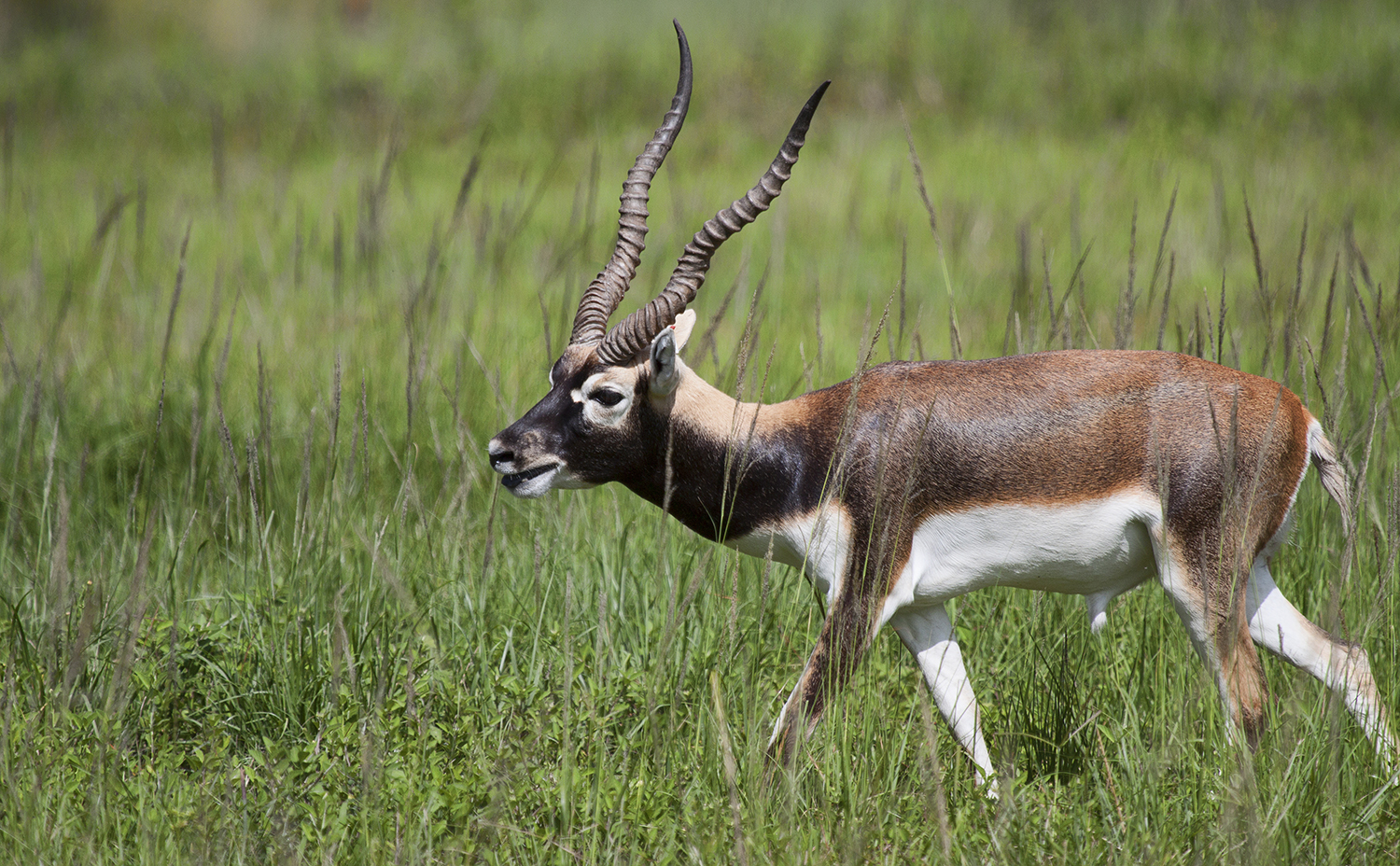 Blackbuck antelope standing in a field of grass. Antelope is looking just off camera putting it's horns in profile. The image was taken at the Lion Country Safari in Loxahatchee, in Palm Beach County, Florida, USA.